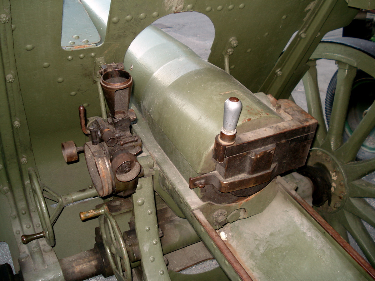 This is (almost certainly) a Soviet 122 mm howitzer Model 1910-1930, displayed in Helsinki Military Museum. The Model 1910 howitzer was based on a French Schneider design. They were produced in Imperial Russia and then in the Soviet Union. As was typical for most World War I artillery pieces, the gun was modernised from 1930 onwards, the resulting guns called Model 10-30. One part of the modernization consisted of the addition of a muzzle brake, which is missing on this particular gun. Photo taken on July 4, 2006. Source: Photo by me, User:Balcer.